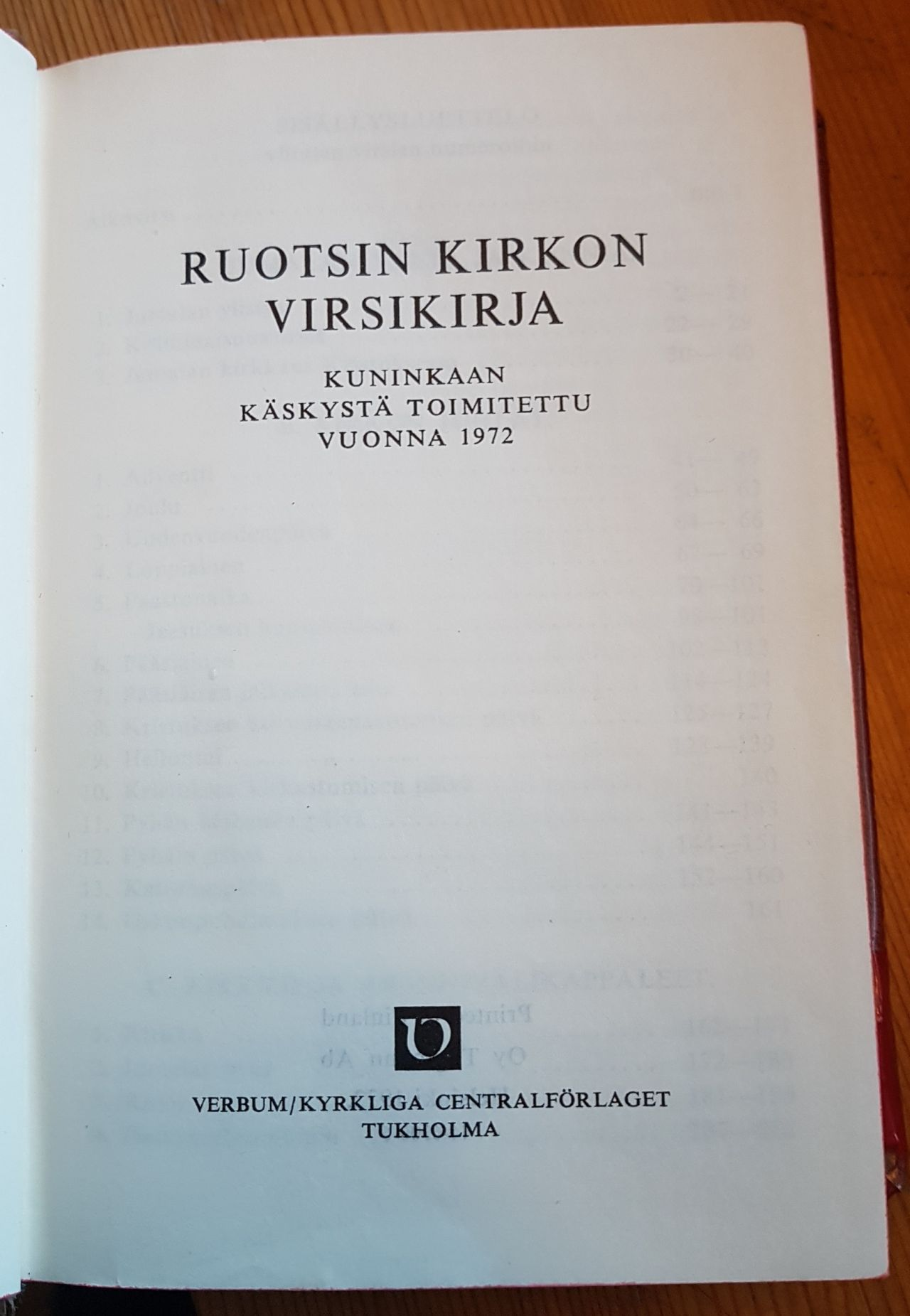 Former Finnish Hymnal for the Chuch of Sweden